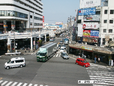 View from Oppama station